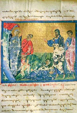 A page from a rare Synaxarium, a short collection of the lives of saints, dating from 1030, depicting the Raising of Lazarus.